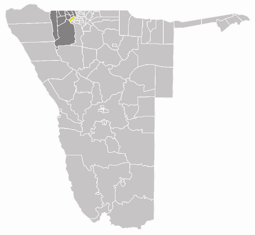 map of the Elim constituency within the Omusati region, Namibia